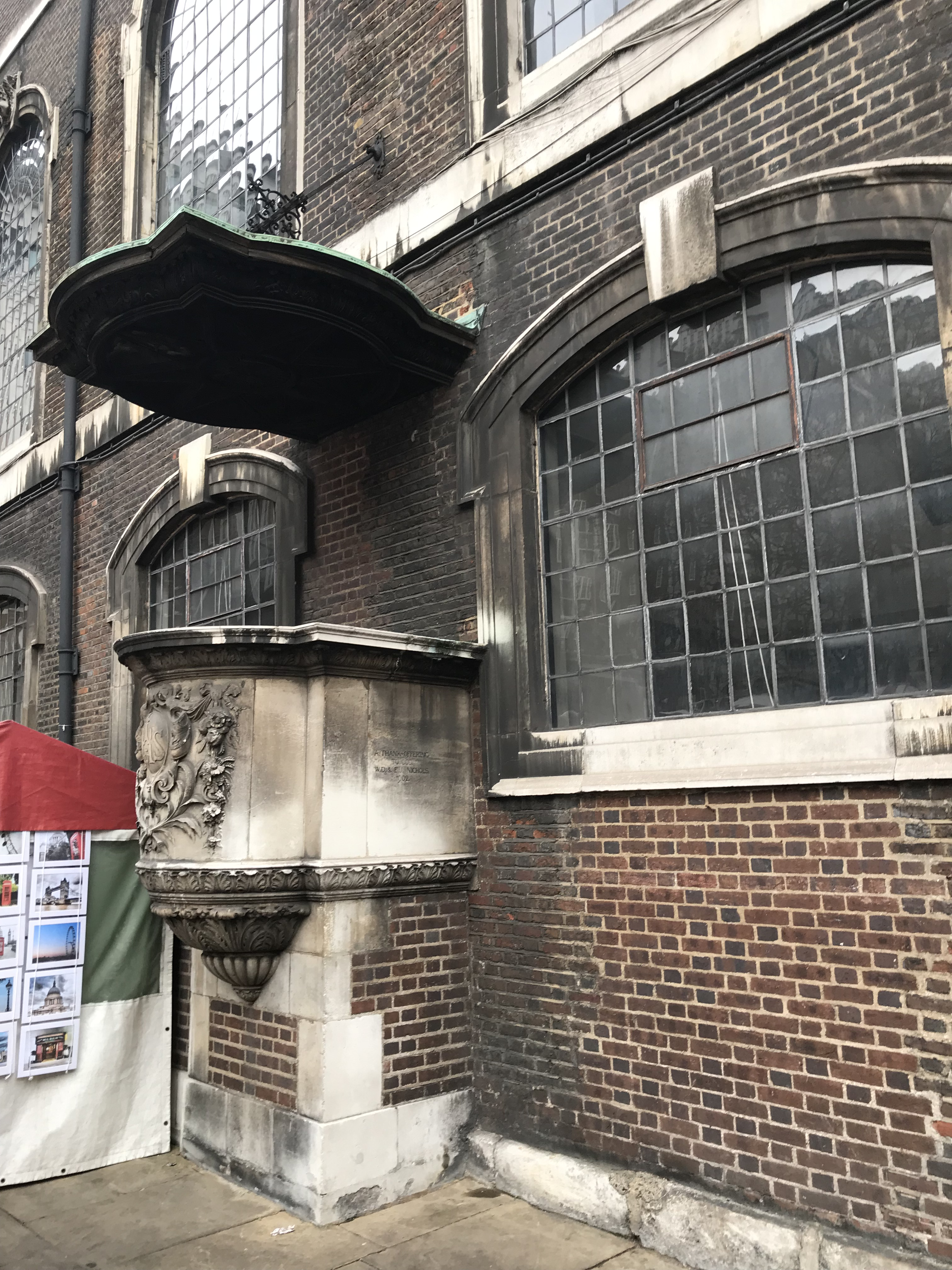 The external pulpit of St James's Church, Piccadilly.